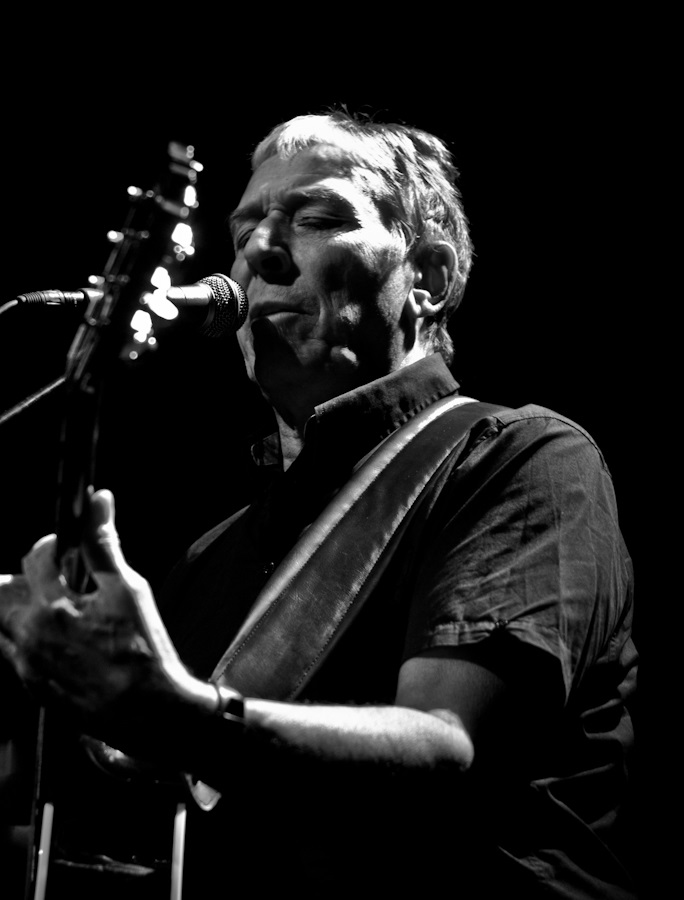 John Cale at Le Chabada, Angers, France, 14 October 2011